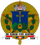 Coat of Arms of São Paulo's São José do Barreiro city, Brazil.